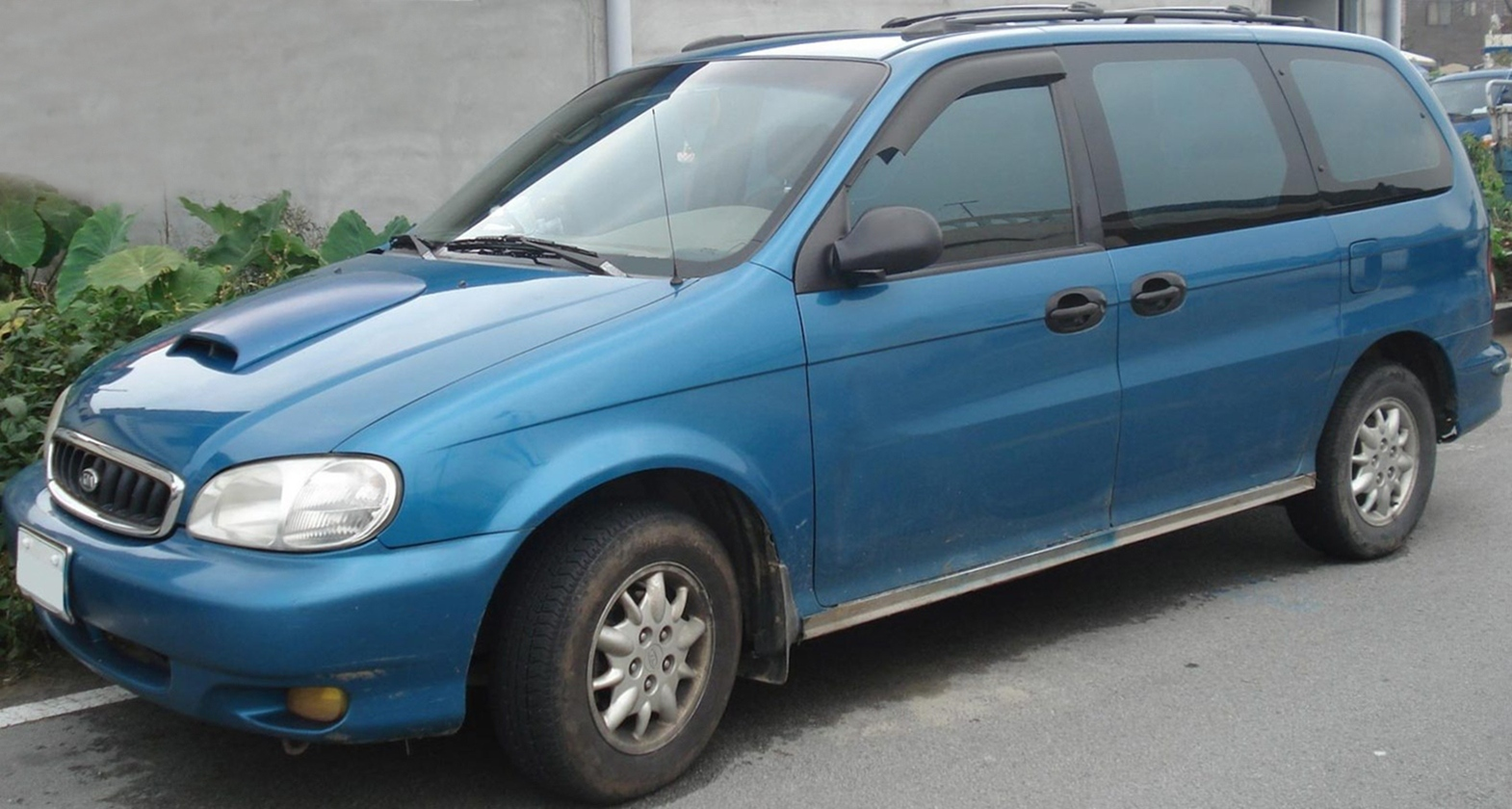 Kia Carnival